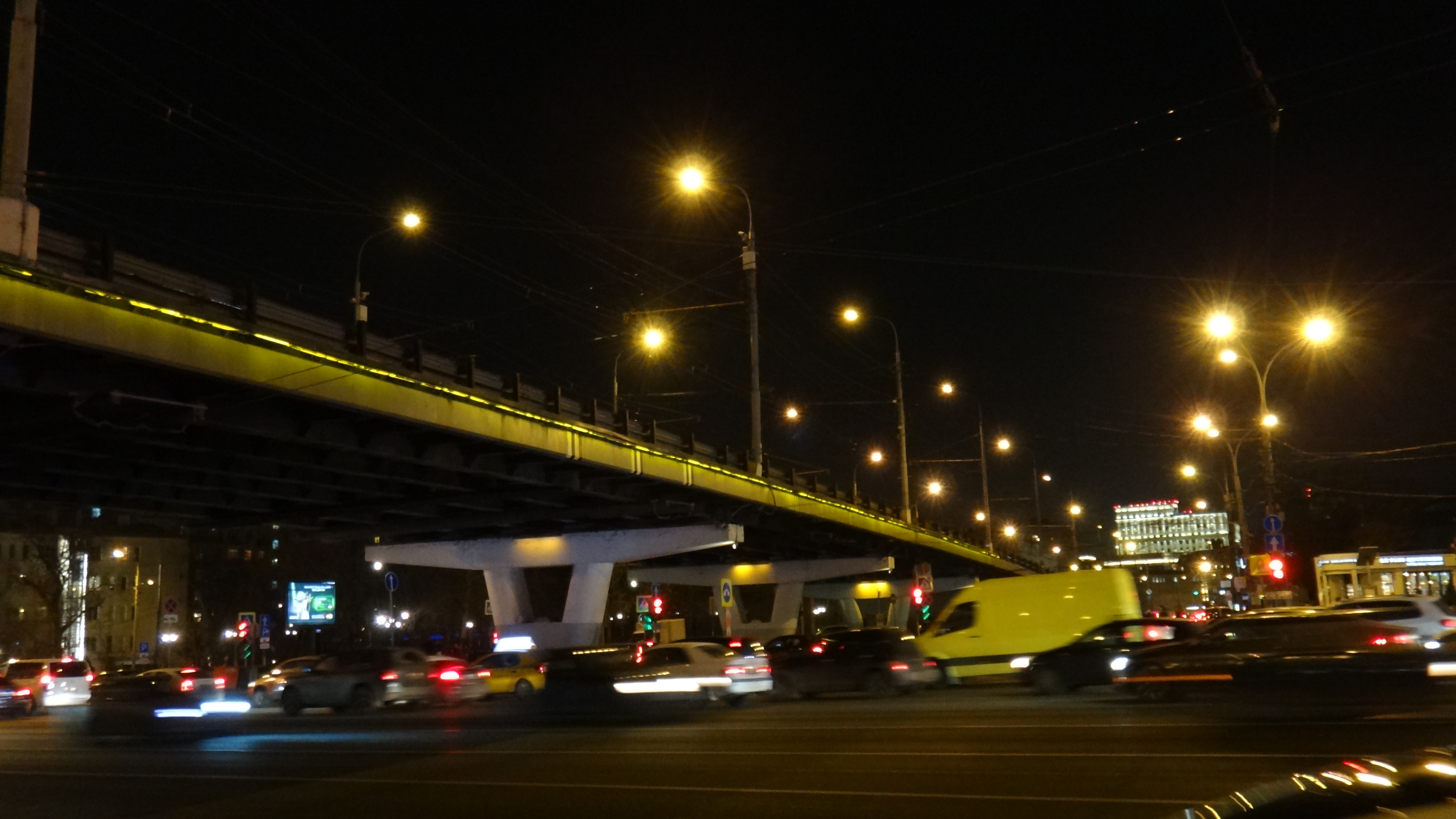 Khamovniki District, Moscow, Russia